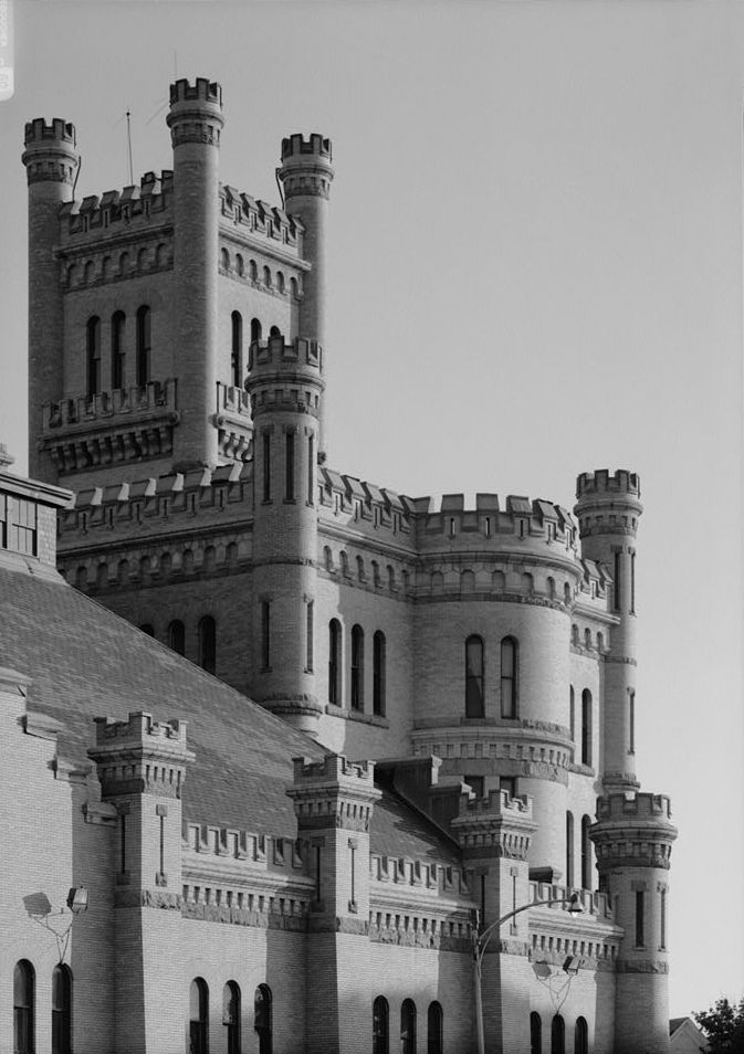 Cranston Street Armory, Providence, Rhode Island. Image: Historic American Buildings Survey of Rhode Island.